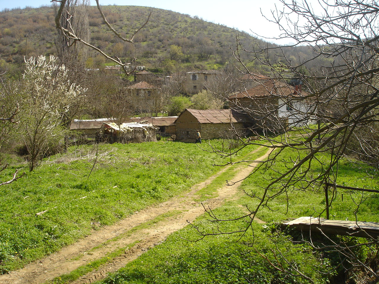 village of Beleshtevica, near Veles, Macedonia